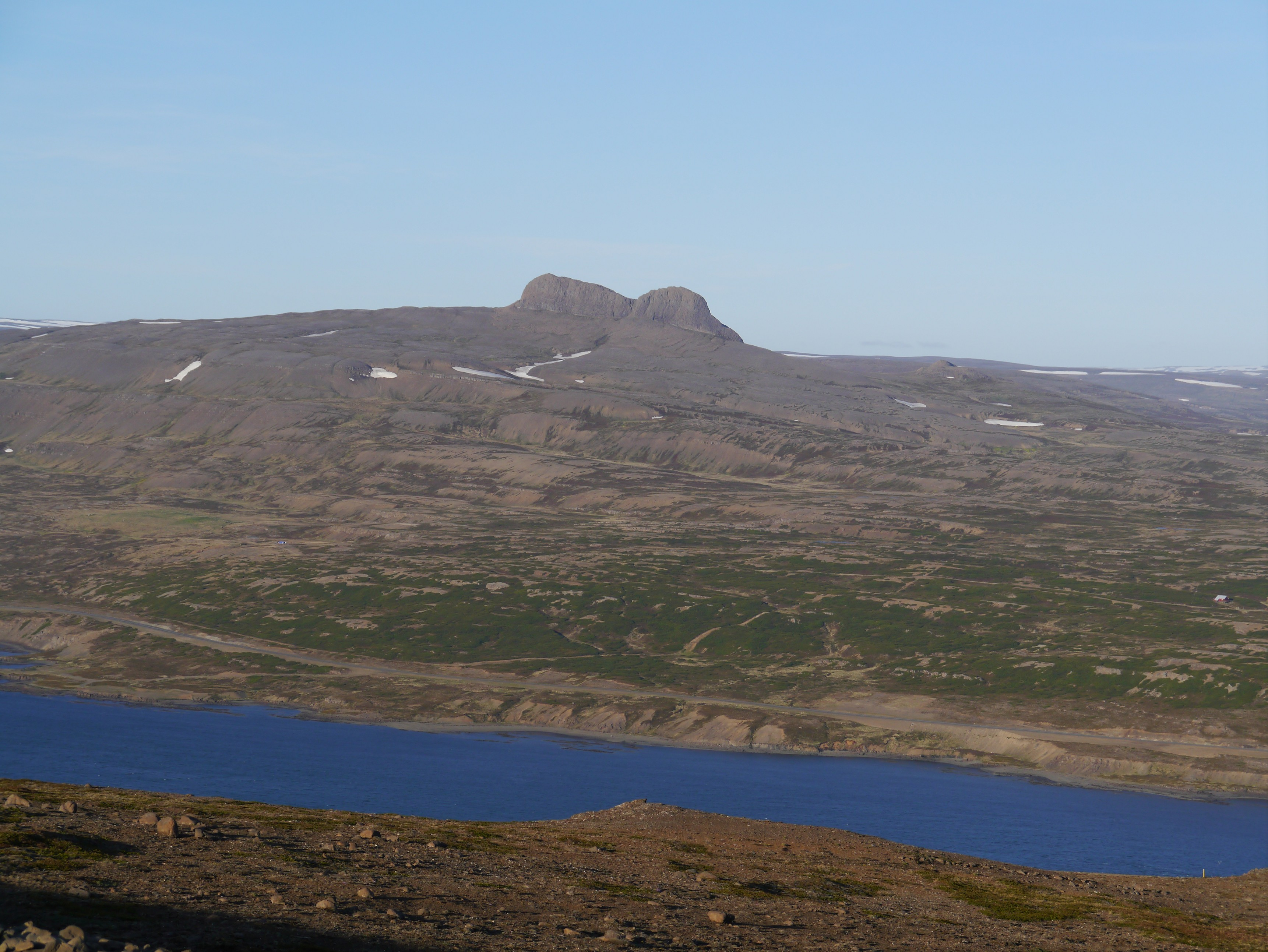 the Icelandic Westfjords